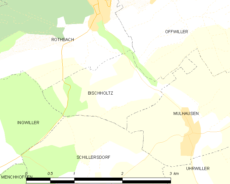 Map of French municipality